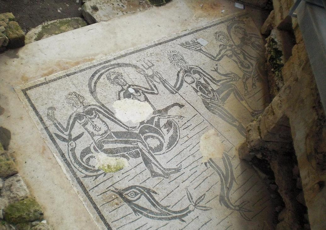 Roman Mosaic in the Sicilian town of Comiso, Ragusa.